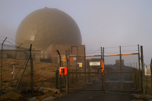 Saxa Vord radome The mothballed radar dome on the top of the hill at Saxa Vord which formerly housed early warning radar.